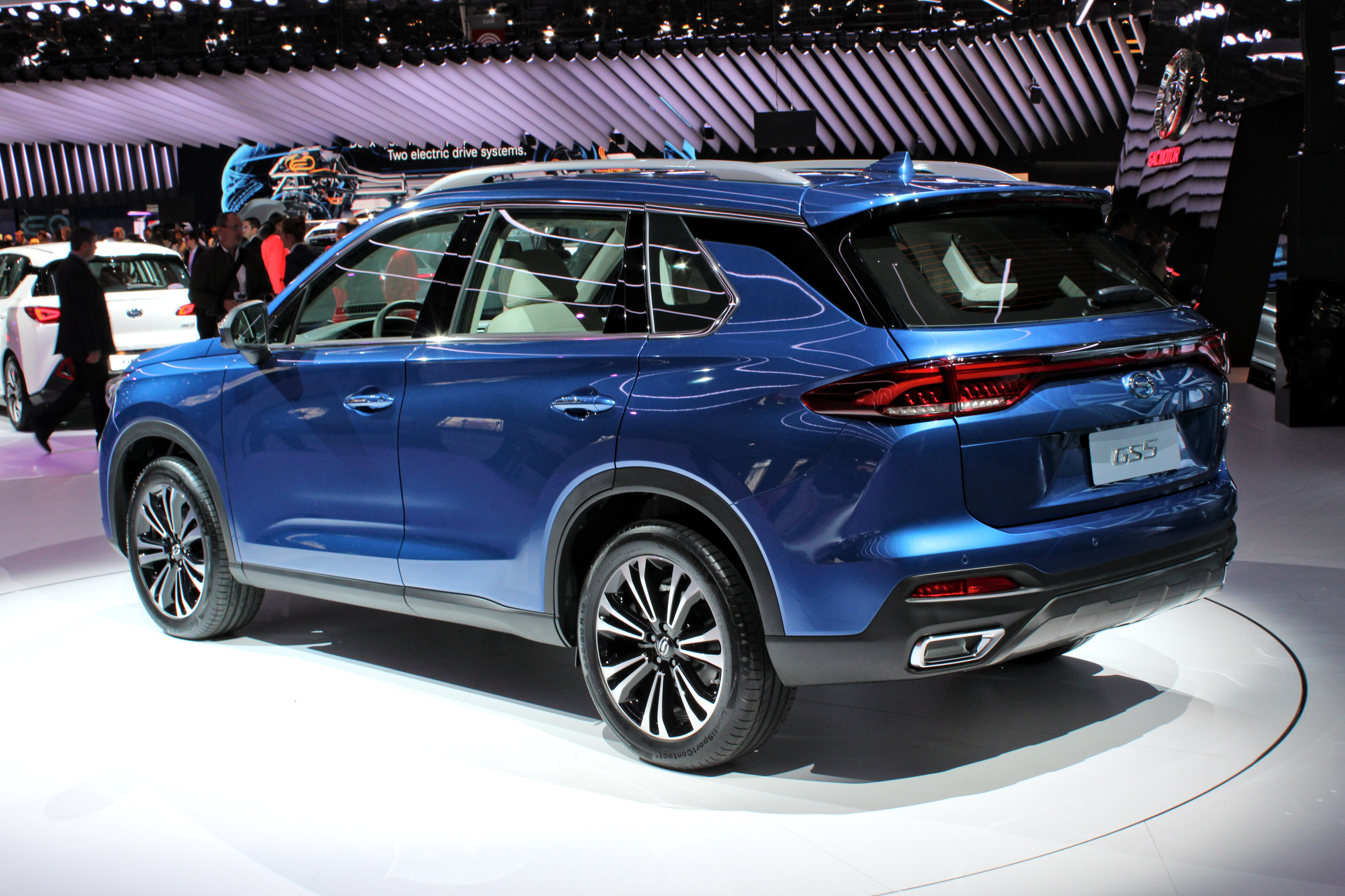 GAC Motor GS5 at Paris Motor Show 2018